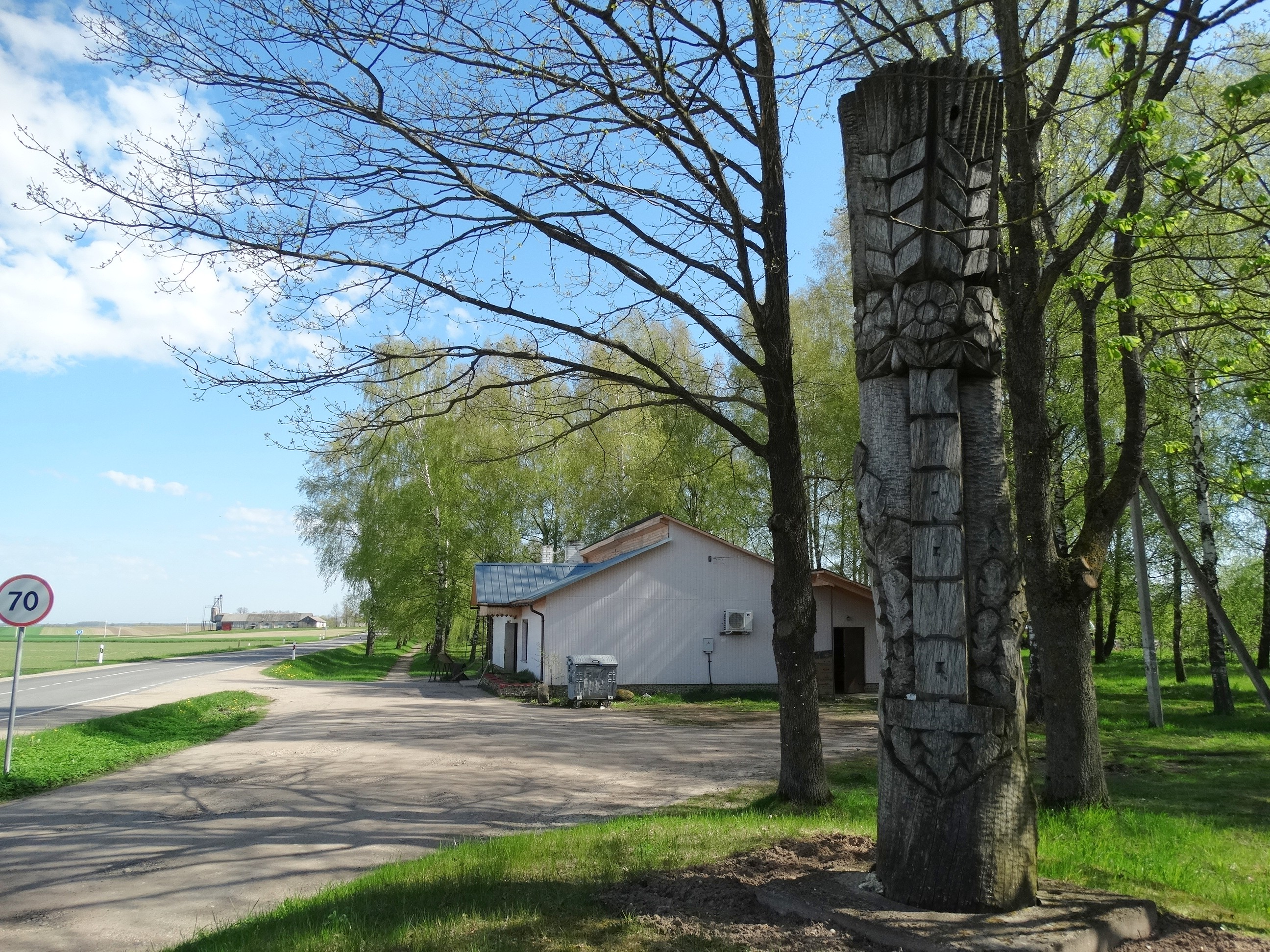 Jančiūnai, Šalčininkai District, Lithuania